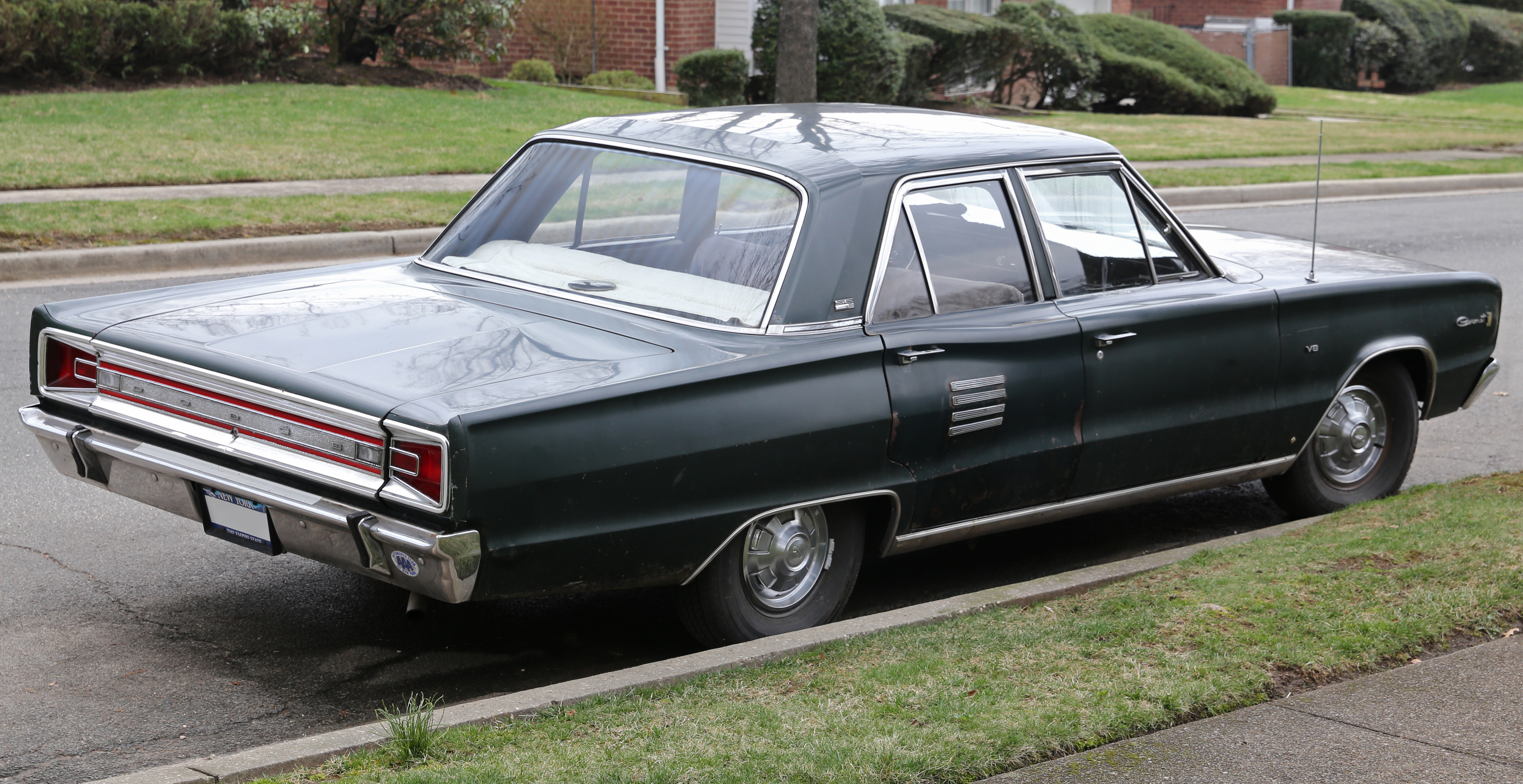 A 1966 Dodge Coronet 500 SE (Special Edition), the name given to the four-door Coronet 500. This example has a twin-barrel 273ci "LA" series V8 engine.